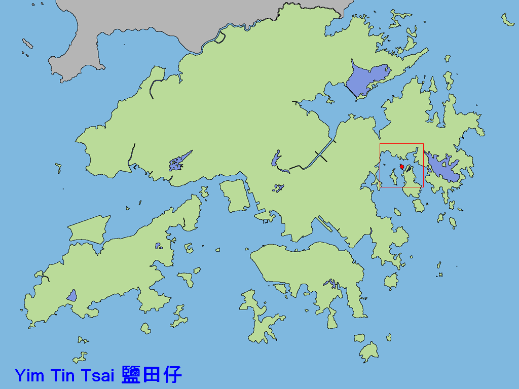 The Location of Tim Tin Tsai, Hong Kong.中文（香港）: 鹽田仔位置。